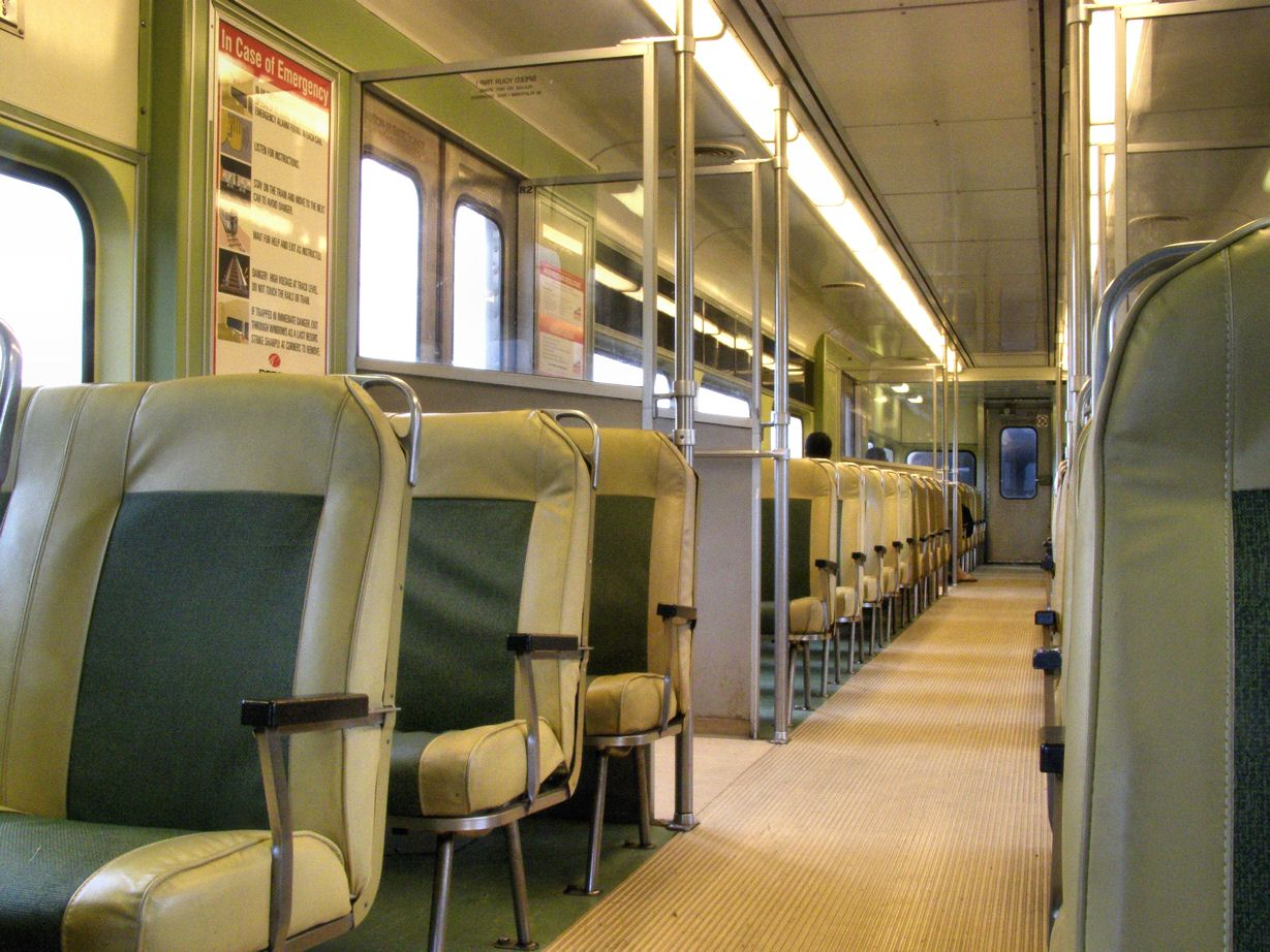 Rather dated interior of a 1968 PATCO Speedline Budd car. Cars feature fully padded 2-2 seating with a cream and lime green motif.